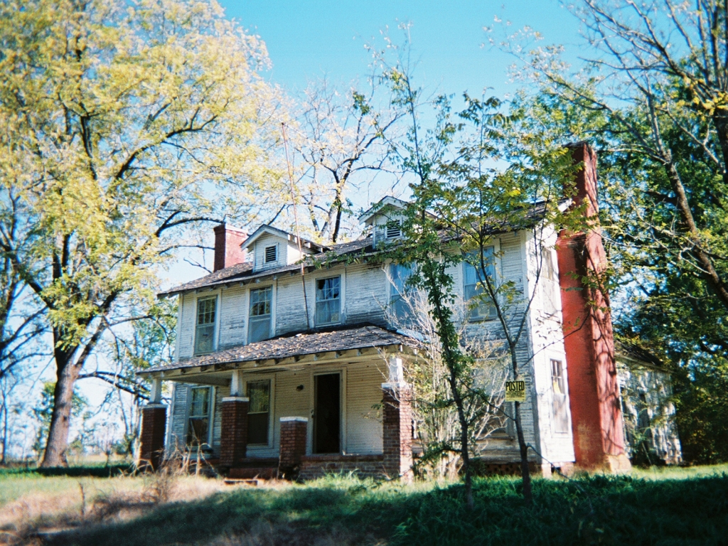 Photo of the Hurst mansion from the Civil War era in Purdy, Tennessee. Photo taken: by Thomas R Machnitzki, October 2007 I took the photo myself, feel free to use it.